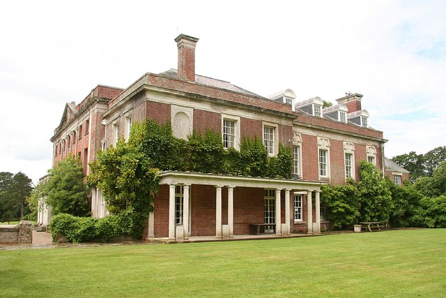 Tapeley Park Dairy Lawn and east front of Tapeley Park